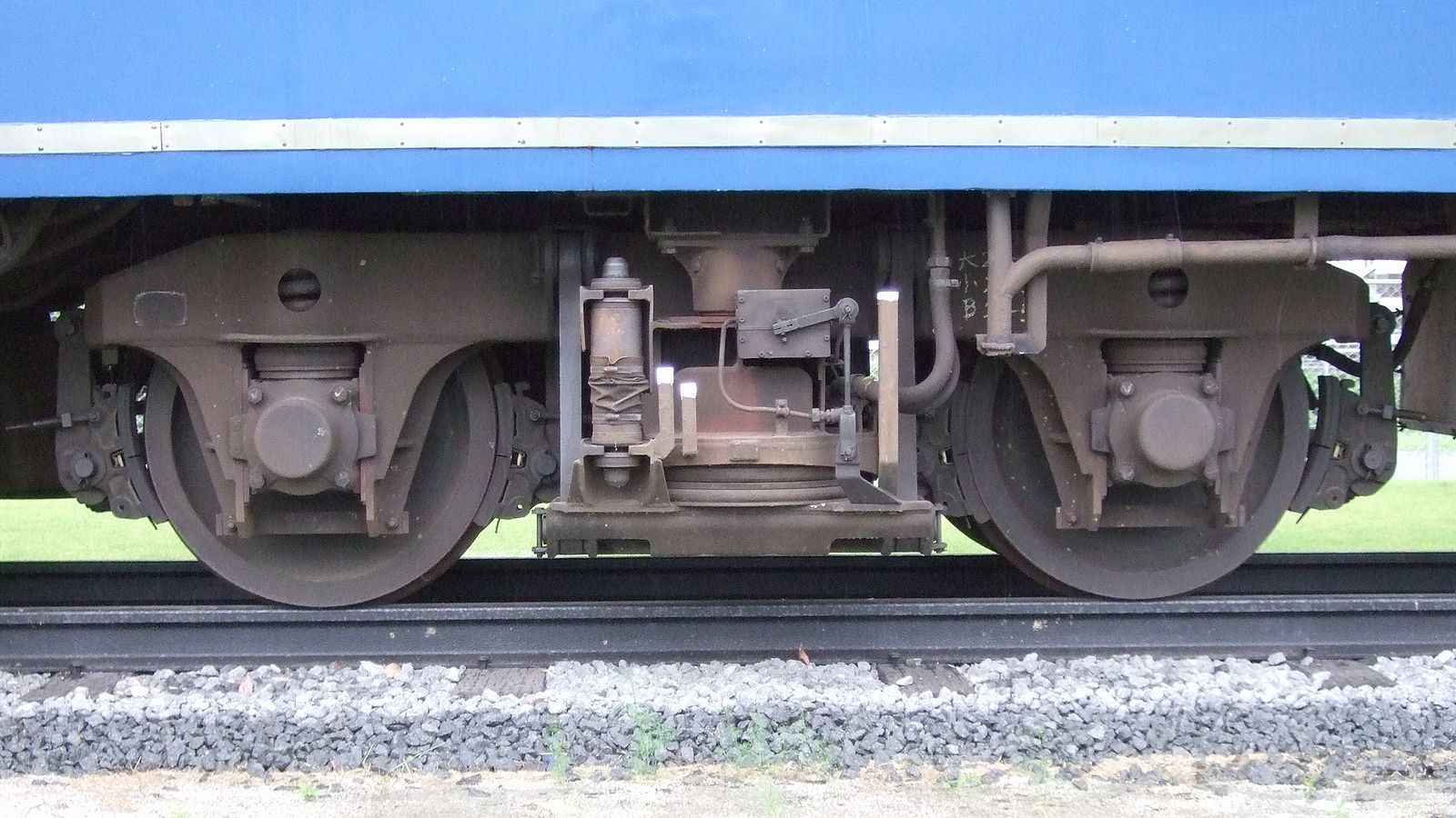 JNR truck TR217C, The truck of Class PC14 and PC24. / Location:at Hita Tenryosui No Sato, Hita City, Oita, Japan.